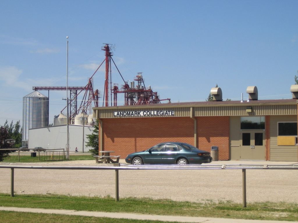 source: Michael Penner (me)